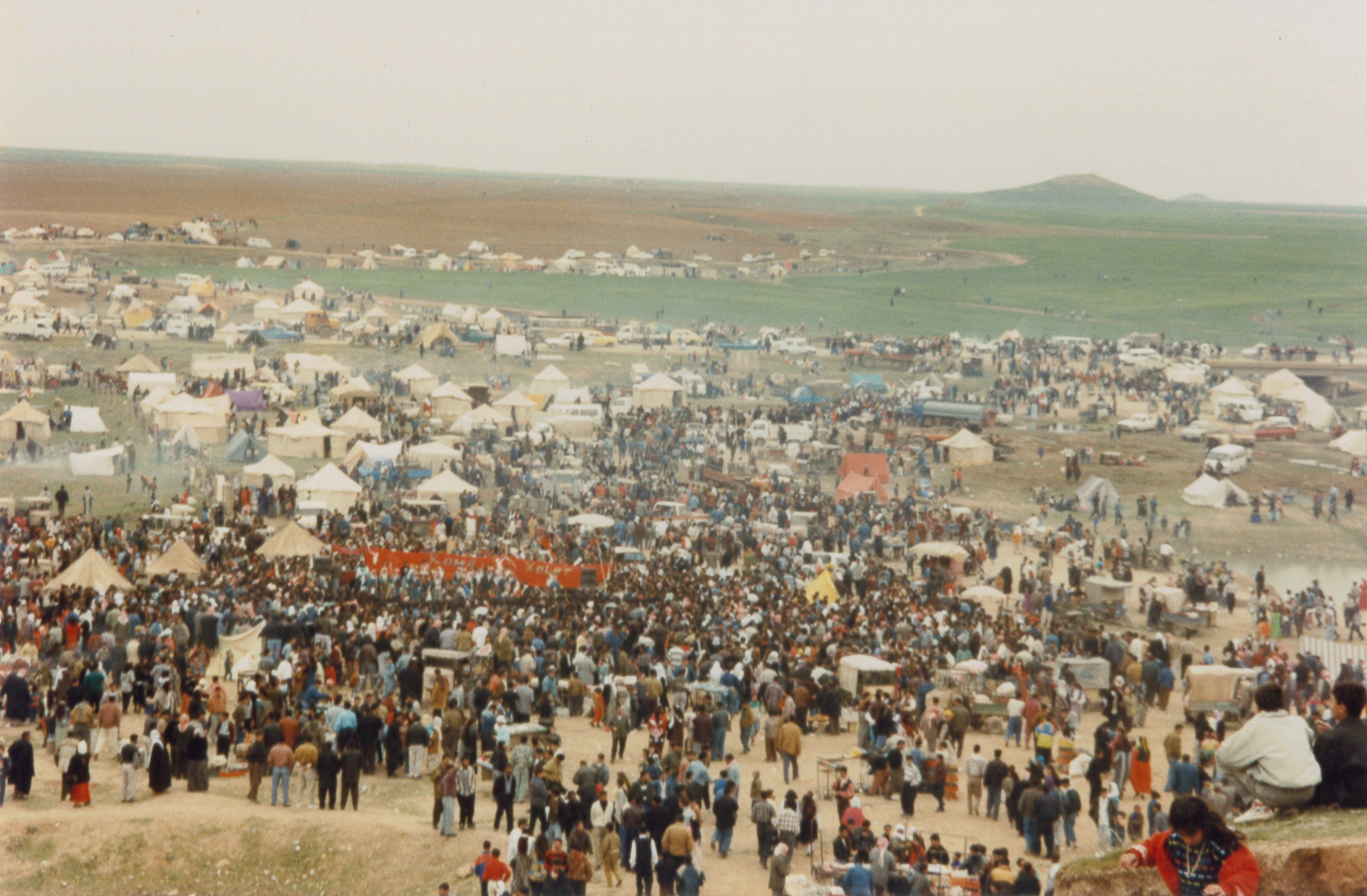 Newroz at Girê Tertebê, near Qamishlo, in 1997.Kurdî: Cejna Newrozê di sala 1997'an de li Girê Tertebê, Qamishlo.